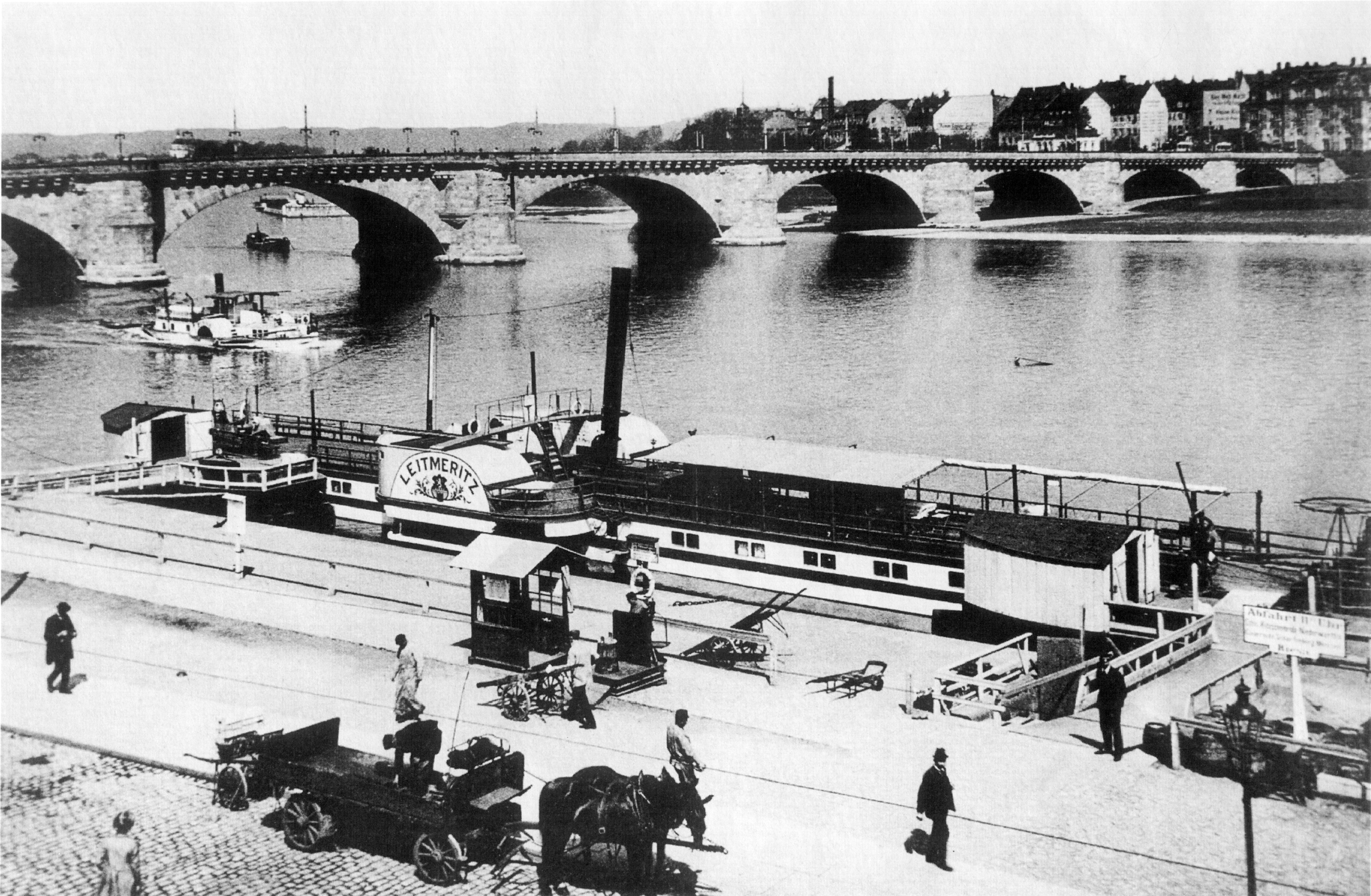 Dresden (Saxony, Germany) - Friedrich-August-Brücke, around 1910